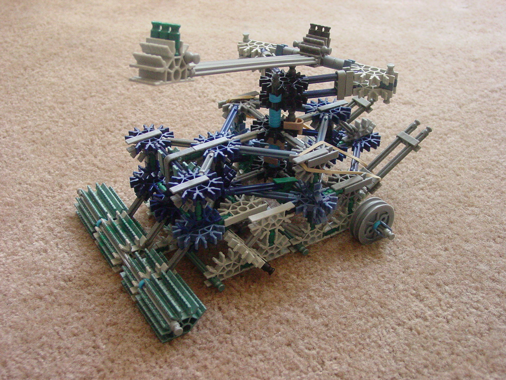 My own photograph, taken August 2006. Source